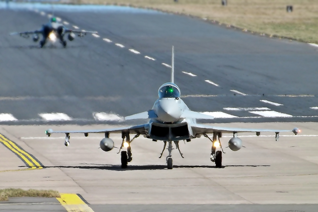 Couple of re-edits of Leuchars Pics